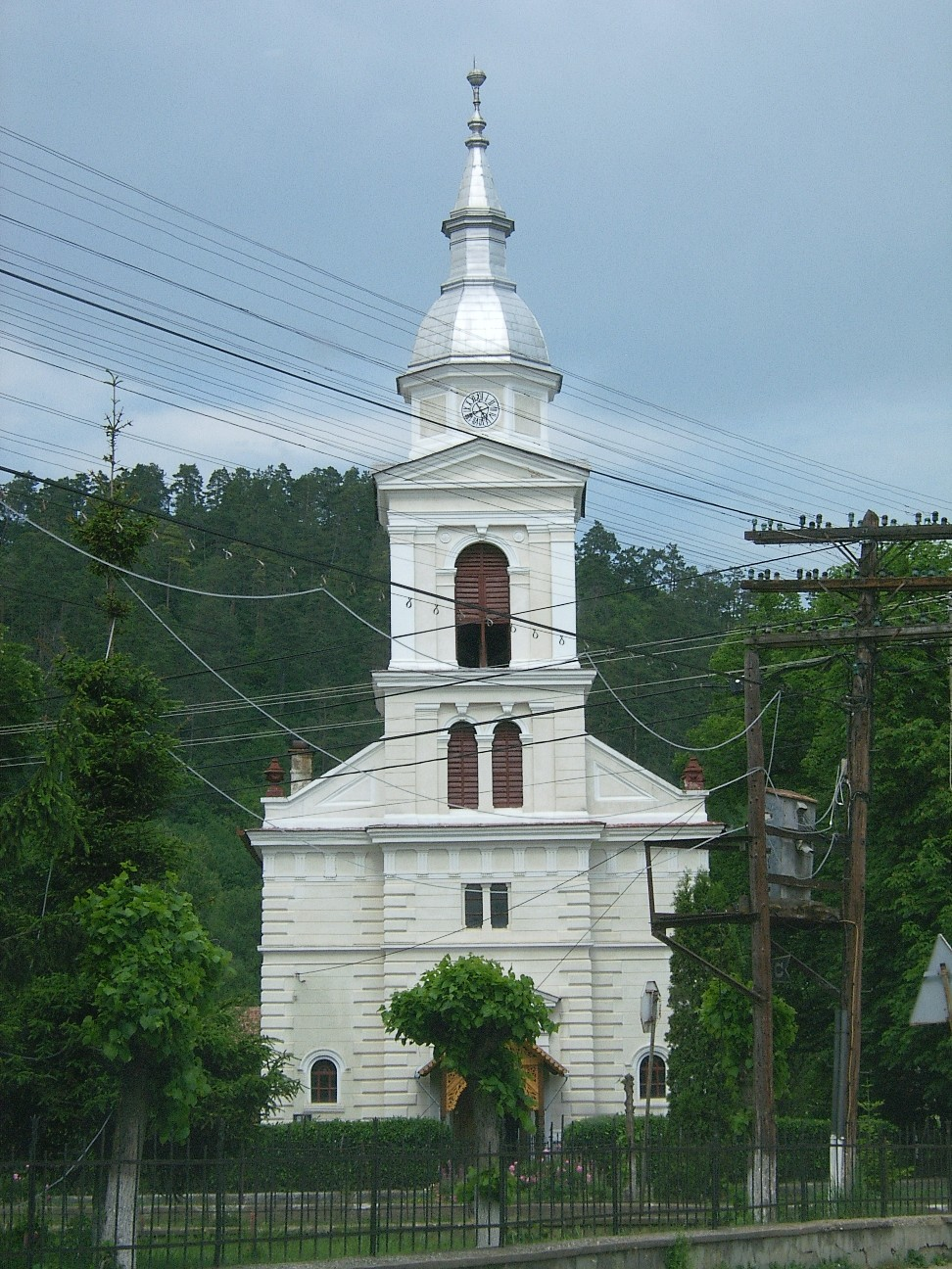 Reformated church of Almaşu, Transylvania